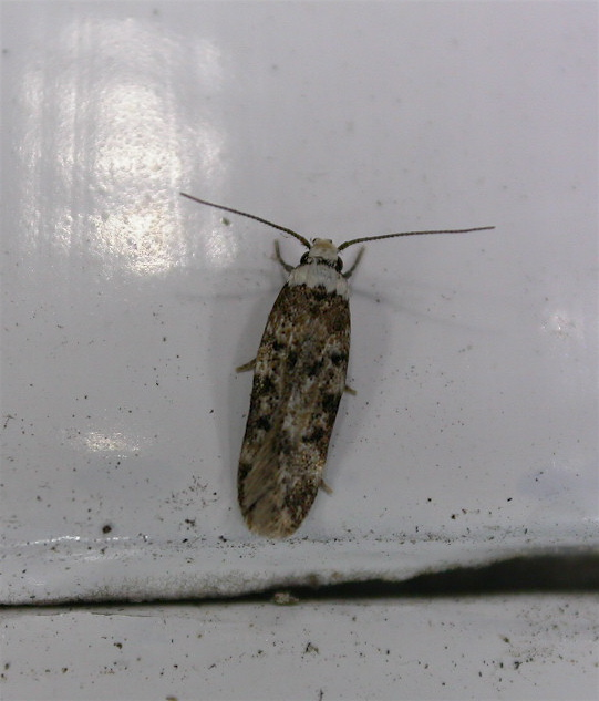 Endrosis sarcitrella, to light, Browns Bay, New Zealand, 1 November 2004